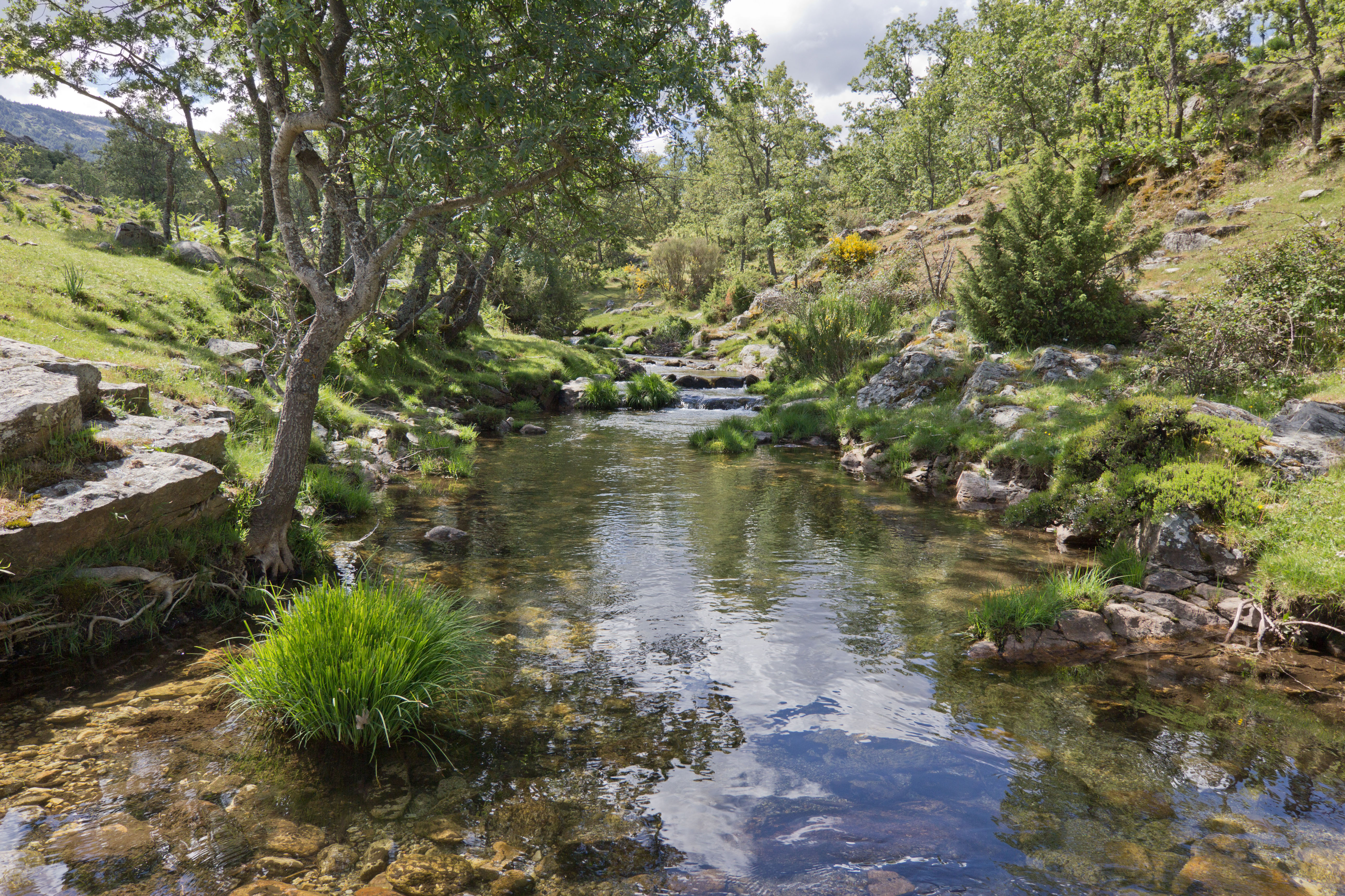 Aguilón Stream, tributary of Lozoya River, Community of Madrid, Spain. This is a photography of a Special Area of Conservation in Spain with the ID: ES3110002. Natura2000 entry, EEA entry